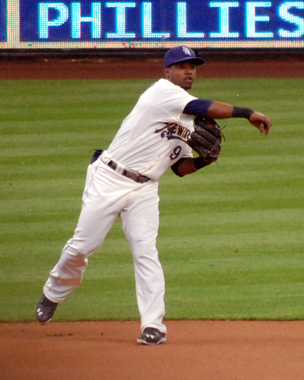 Jean Segura playing for the Milwaukee Brewers at Miller Park in Milwaukee, Wisconsin.